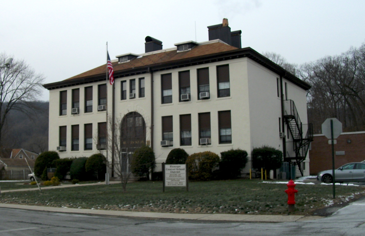 Hillburn, New York's former "Main School" building, at 45 Mountain Ave., is listed on the National Register of Historic Places.